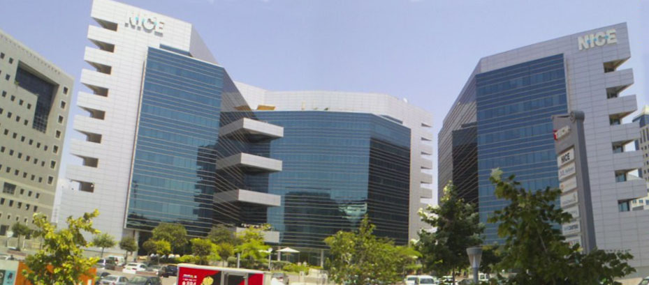 Nice building in Raanana